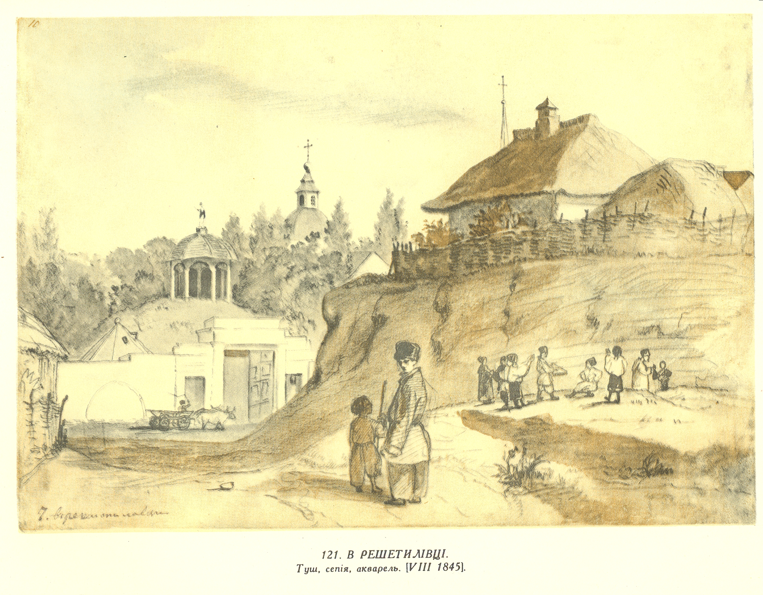 Painting of Taras Shevchenko